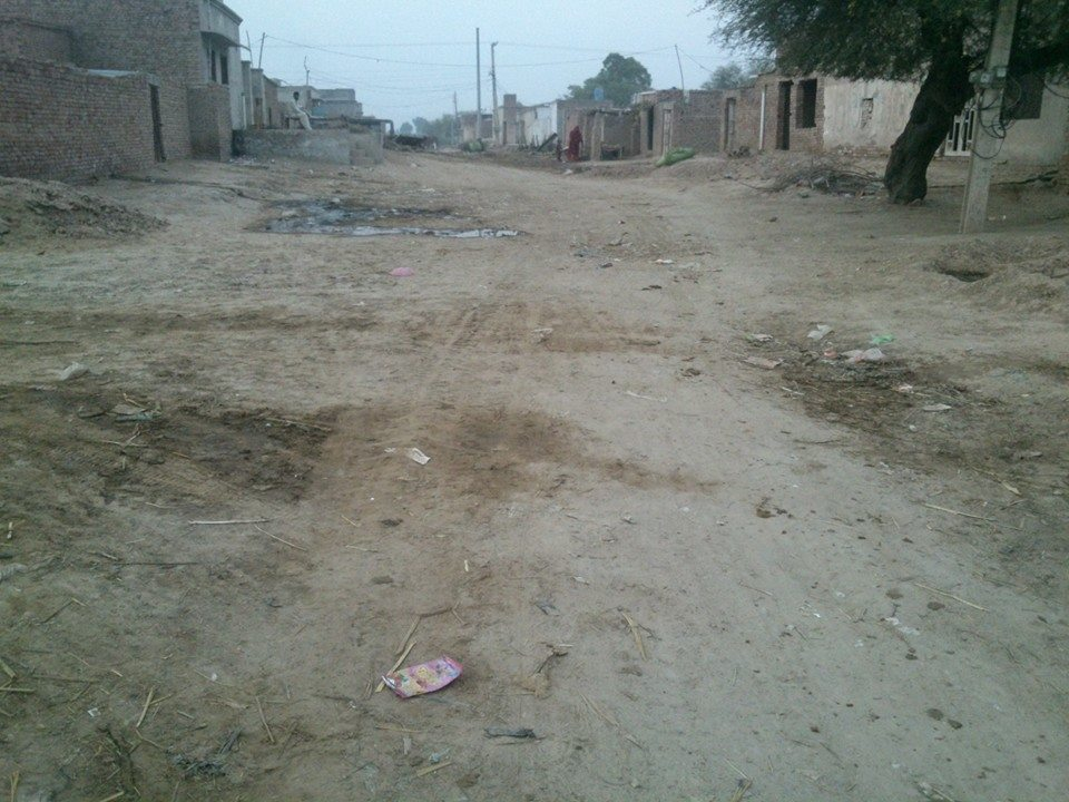 Street Scene of Chak 15 DNB